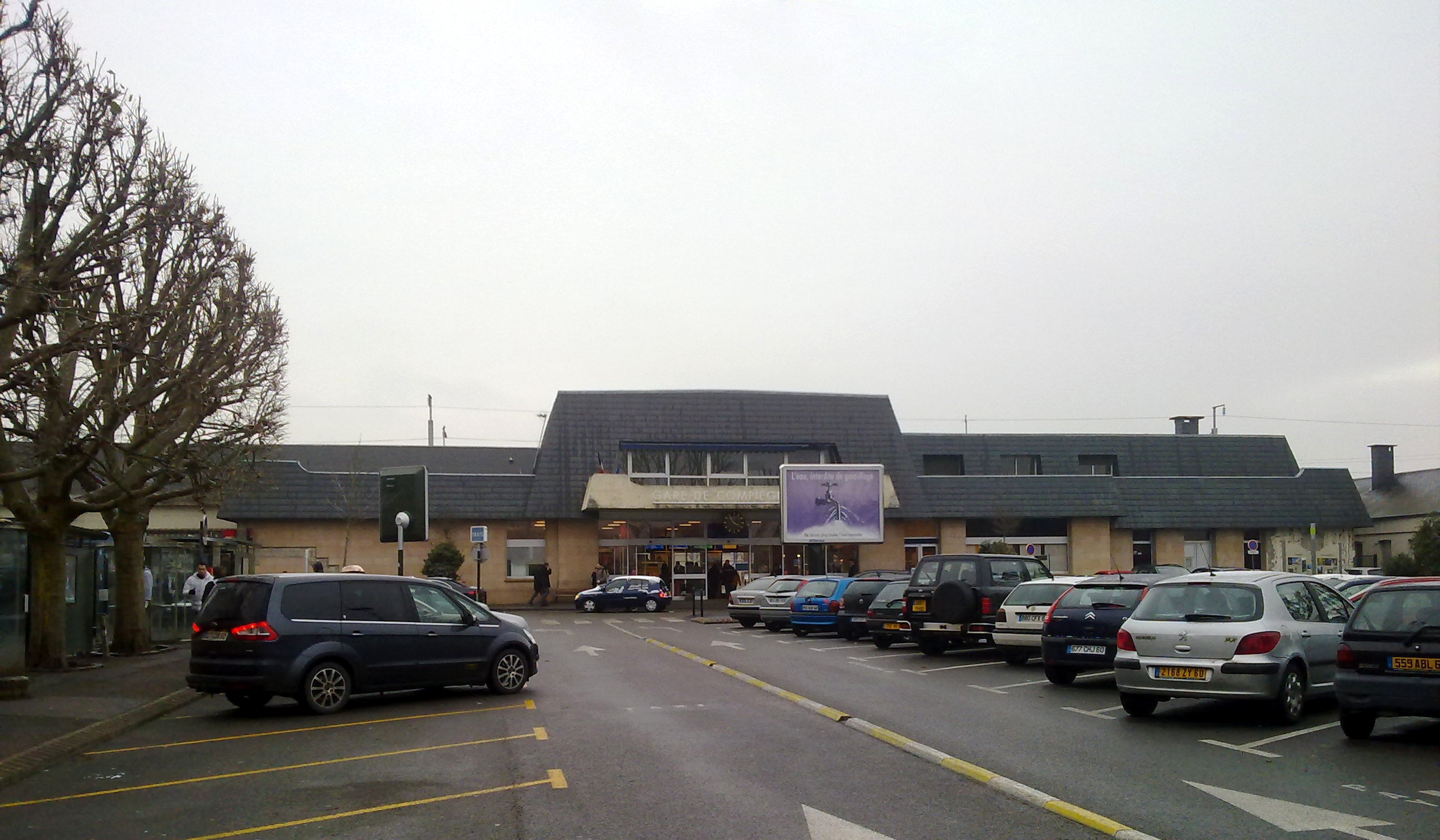 Compiegne Train Station